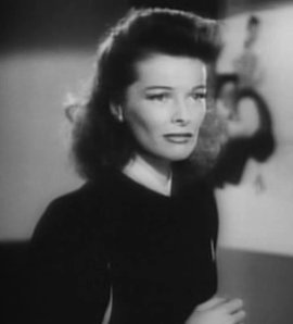 Cropped screenshot of Katharine Hepburn from the film Stage Door Canteen.